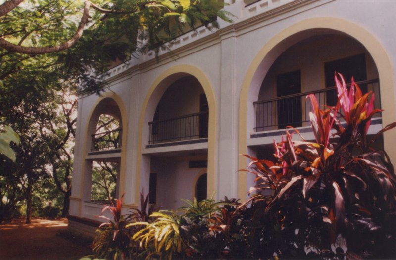 The High School/Upper Primary section of Sri Atmananda Memorial School in Malakara, Kerala, India